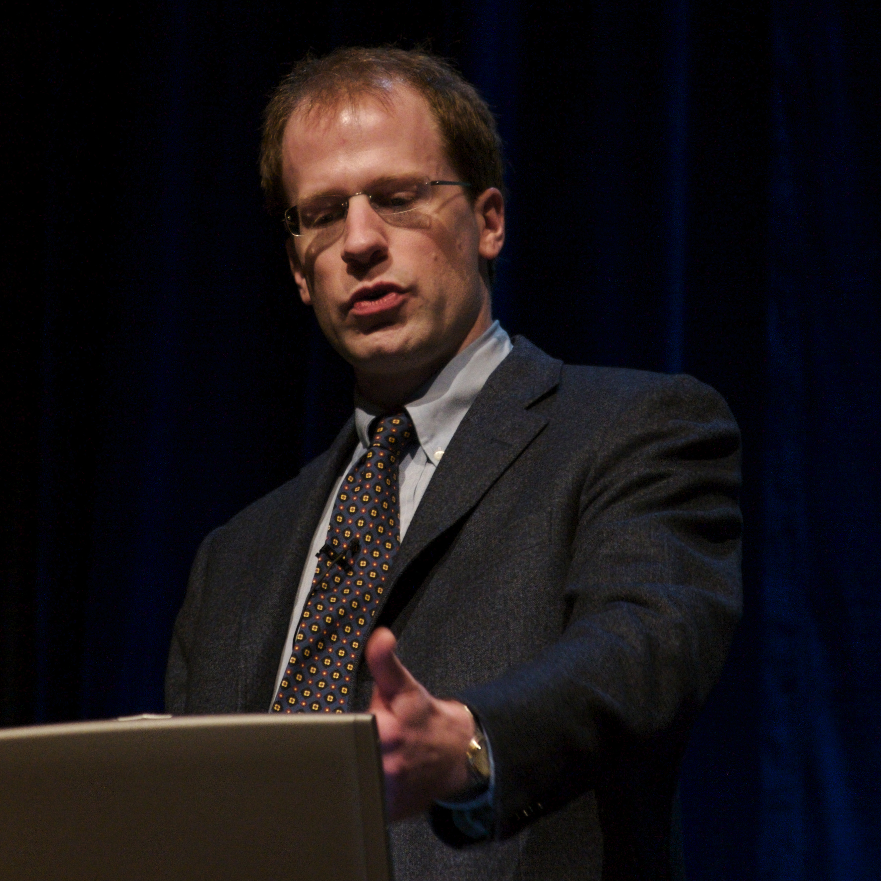 Nick Bostrom, a Swedish Oxford-educated philosopher, at a 2006 summit in Stanford.